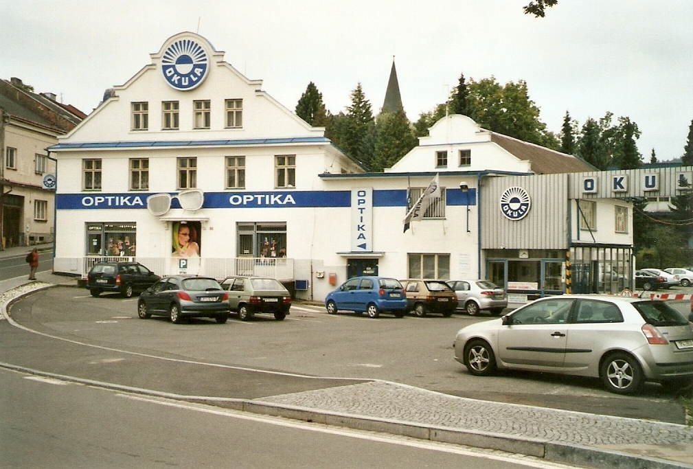 Nýrsko town in Klatovy district, Czech Republic. The Okula Nýrsko factory entrance.